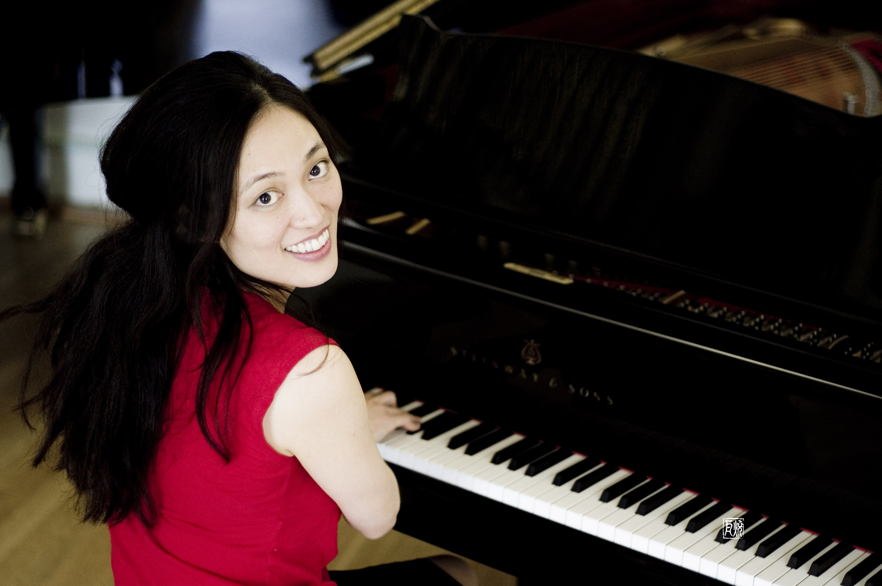 Sachie Matsushita, Grand Piano